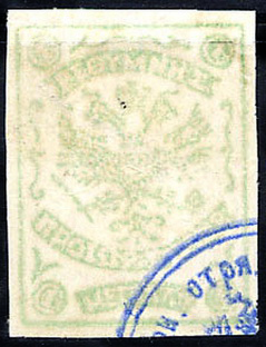 Stamp Russian mail on Crete